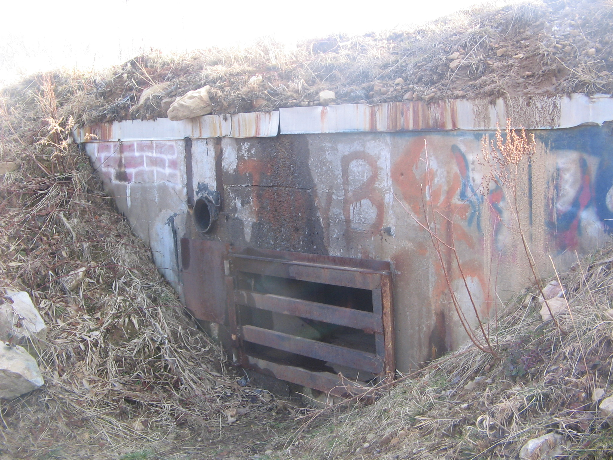 Part of former jet engine test bunker in Quehanna Wild Area, Cameron County, Pennsylvania, USA. The bunkers have been covered in dirt and only a small part of the bunker is exposed.